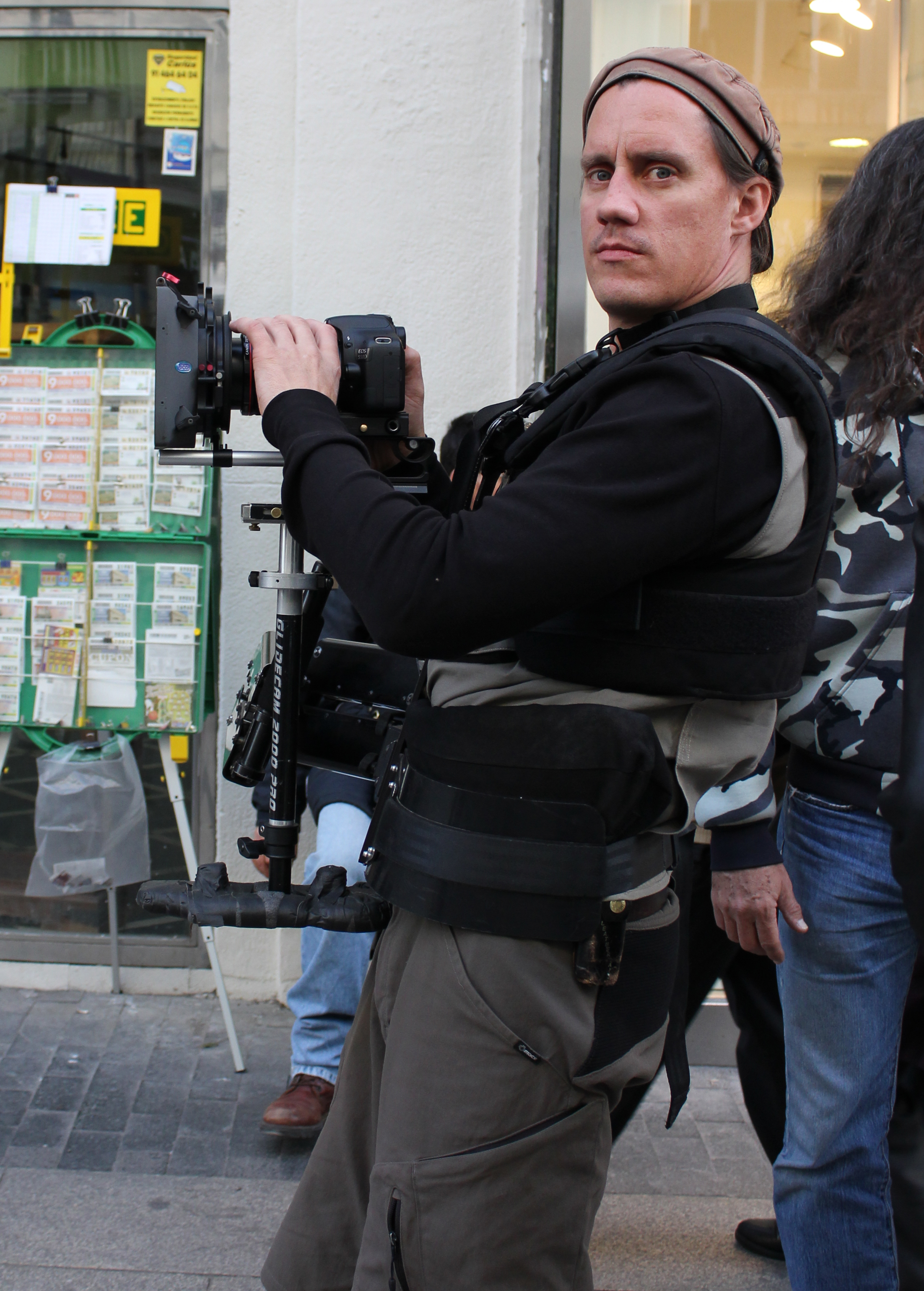 Operator with steadicam Glidecam 2000 and Canon EOS550D digital reflex camera filming in Madrid (Spain).